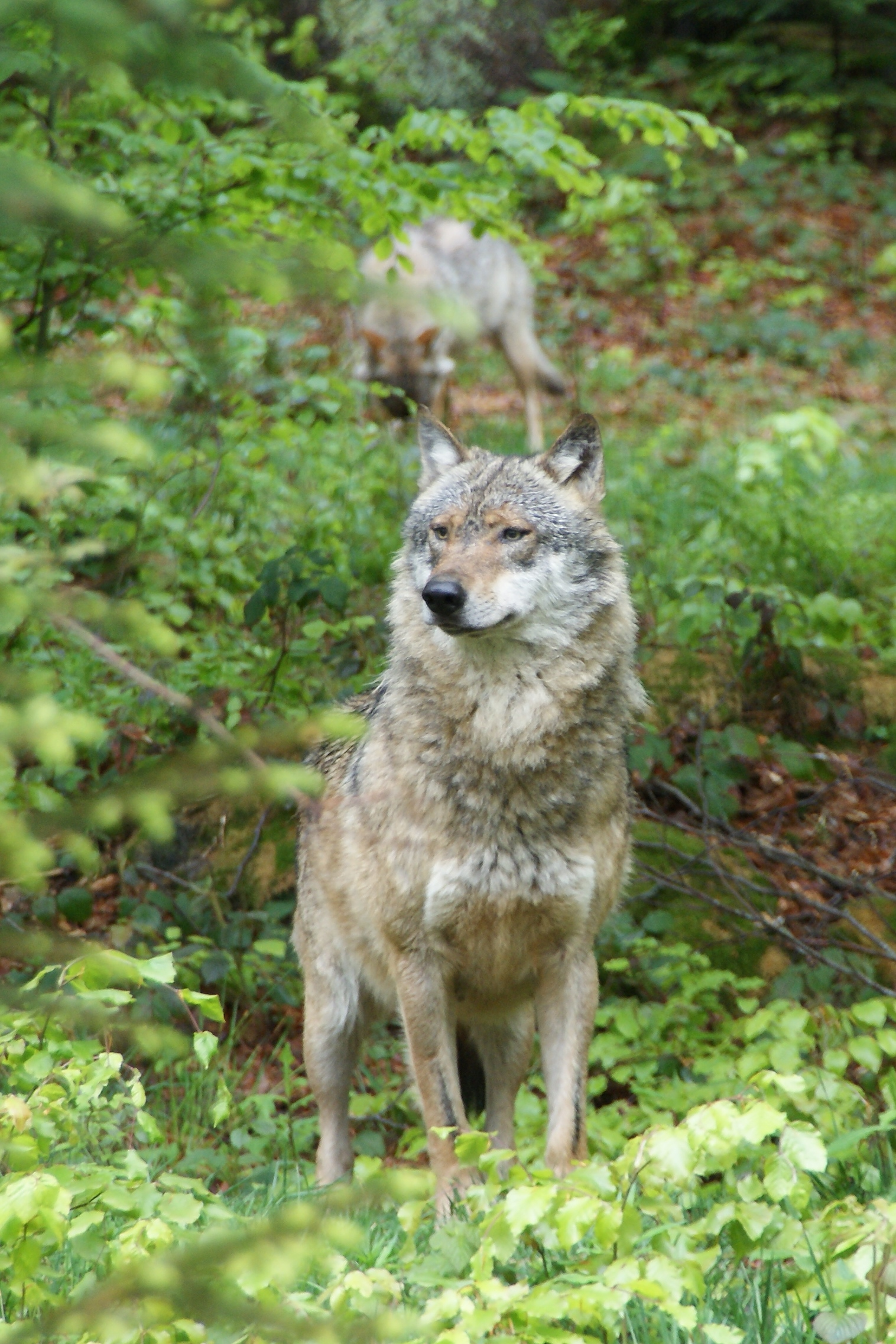 Gray Wolf in an open-air enclosure at the National Park Bavarian Forest